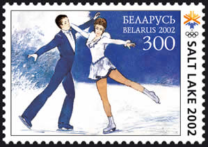 Belarus stamp no. 449, commemorating the 2002 Winter Olympics.